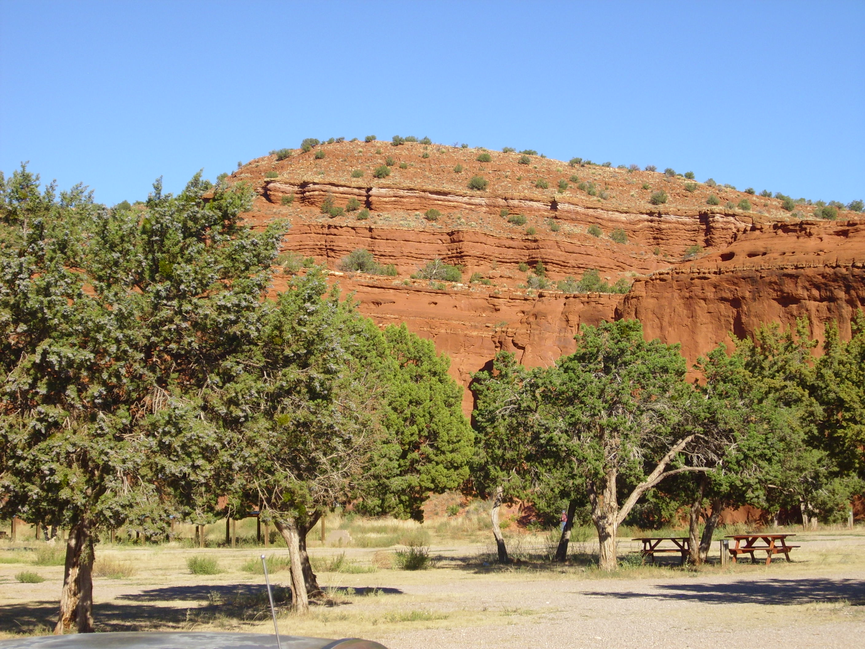 This image is taken at the Red Rocks rest stop in Canyon de San Diego just north of Jemez Pueblo, New Mexico, USA. The lower massive beds (just above the trees) are of the De Chelly Sandstone, while the upper, thinner beds are the San Ysidro Formation. The very top of the mesa is Glorieta Sandstone (not part of the Yeso Group). The Yeso Group and the overlying Glorieta Sandstone were laid down in the Kungurian Age of the lower Permian.